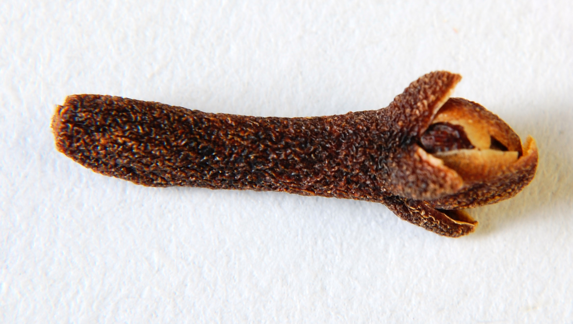 Dried Clove (from Syzygium aromaticum)